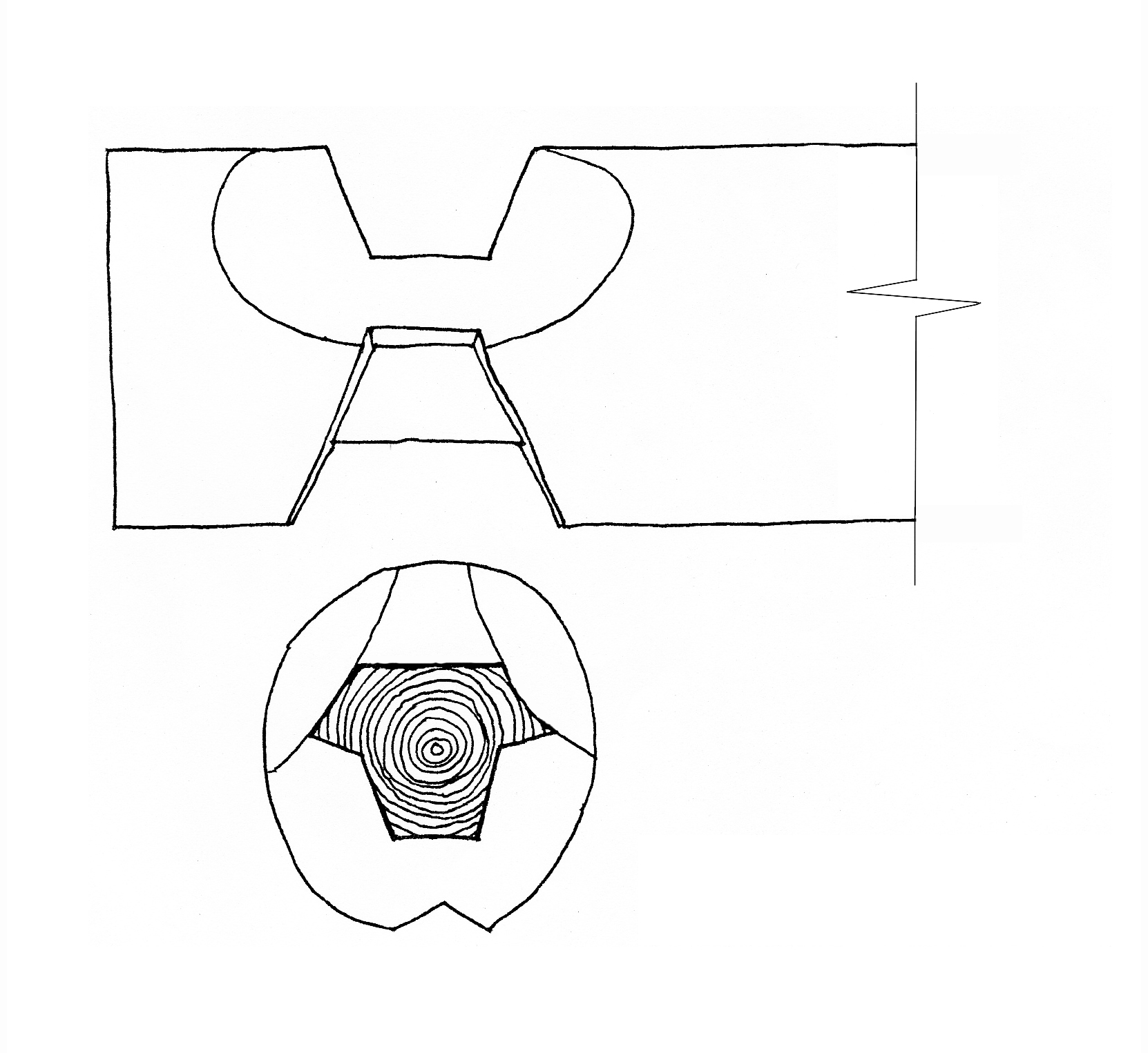 Medieval log building notch used in Norway, named after the Rauland house from NumedalNorsk bokmål: "Raulandslaft", norsk laftehogg fra middelalderen, oppkalt etter stua fra Rauland i Numedal.